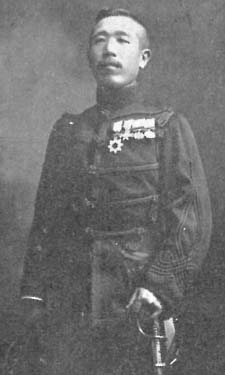 Nagai, Kenshi(1865-1940)